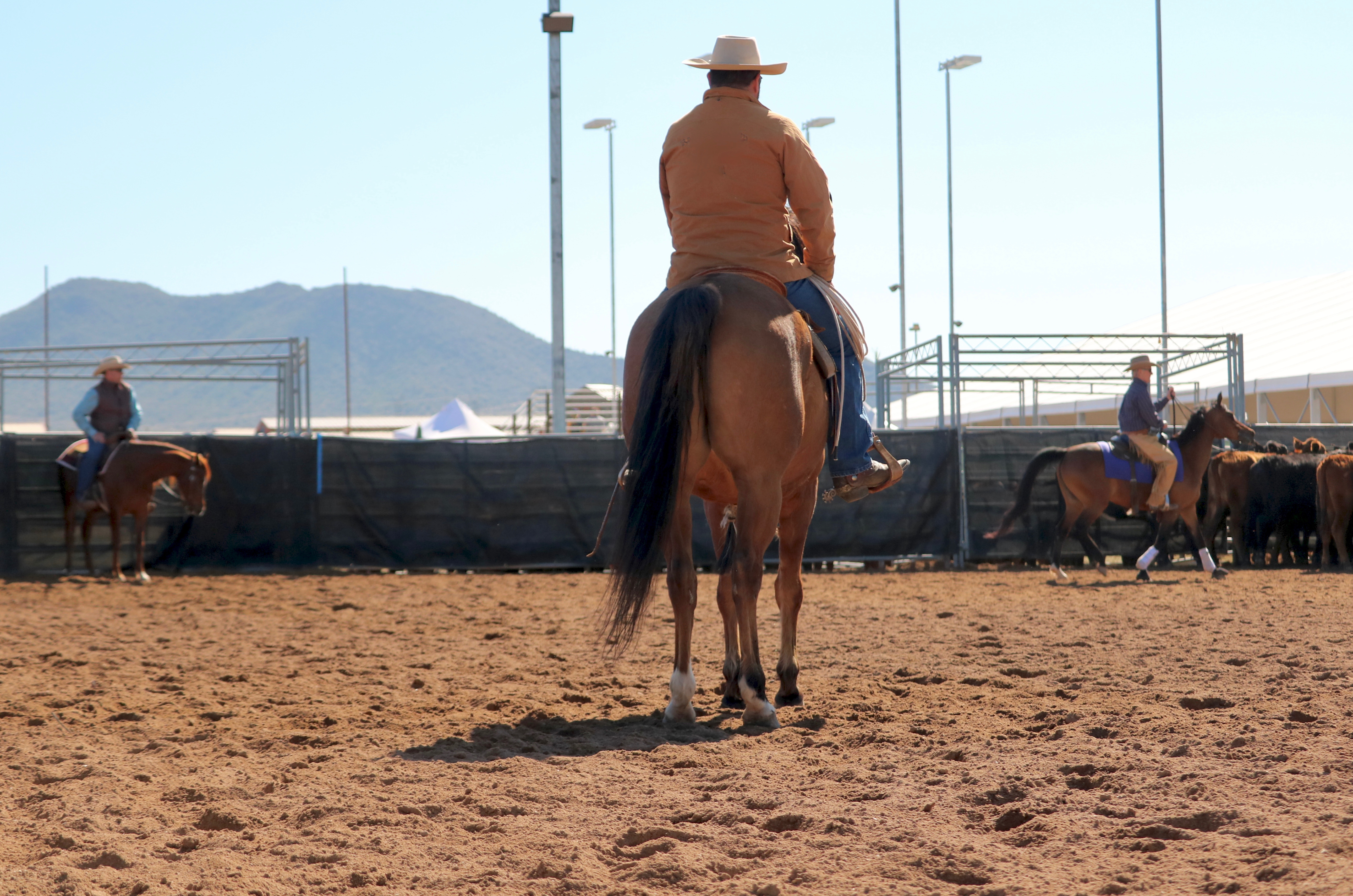 Center and left riders are "turnback men" who assist competitors in cutting competition by keeping the cow from running away from the rider and the herd. Competitor is on horse to the right in image, entering herd. At the 2017 Scottsdale Arabian Horse Show, Scottsdale, Arizona